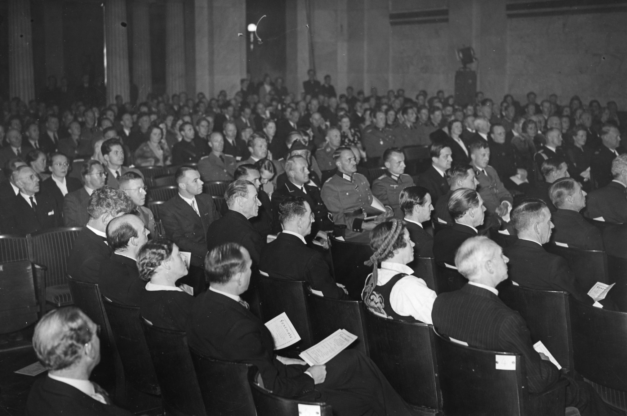 NS (the Norwegian Fascist party) held a total of seven party congresses in the 30s, but during the period 1940-1945 there was just one national meeting, the 8th national meeting in Oslo on September 26th and 27th 1942. An estimated 10,000 participants from across the country gathered in the capital for this party meeting. The extensive program included the major parades in which both labor service, women, SS, NSUF, and young party members paraded. There was a large memorial ceremony for the fallen in the Vigeland Park. The closing ceremony took place at Bislett Stadium.